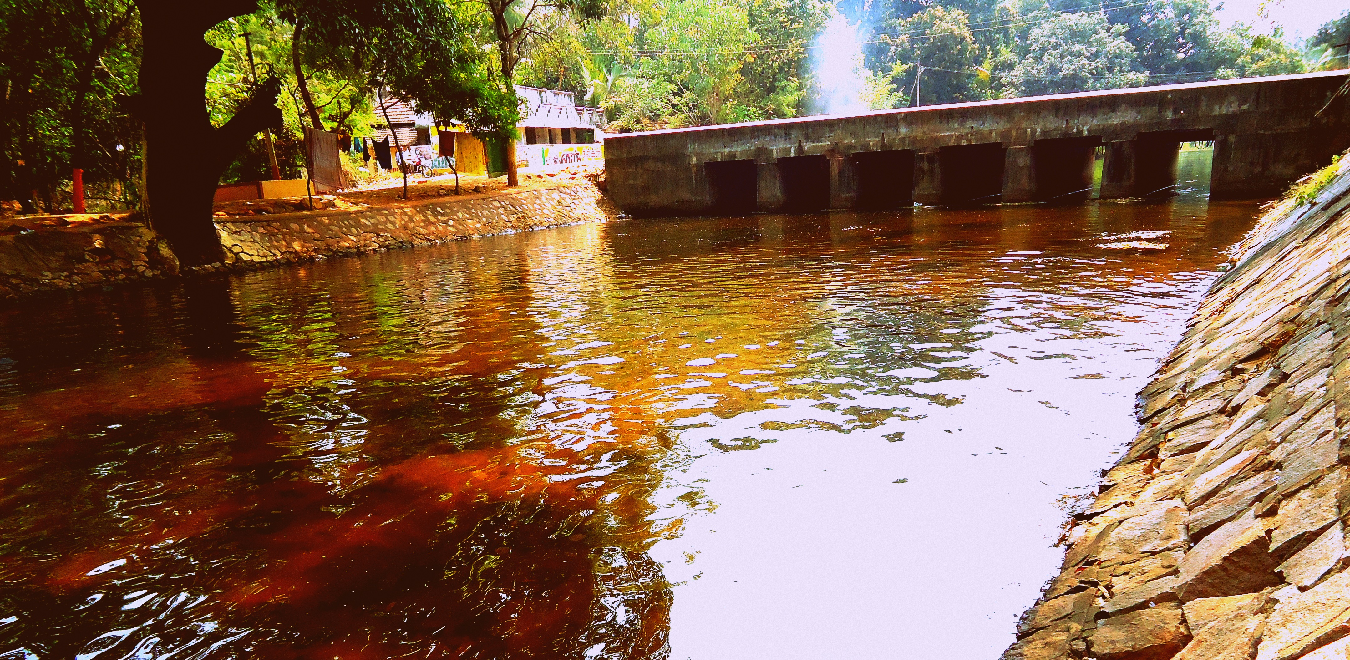 Nalumavadi, It is the canal which is the landmark for this village.people in and around this village use to take bath her.